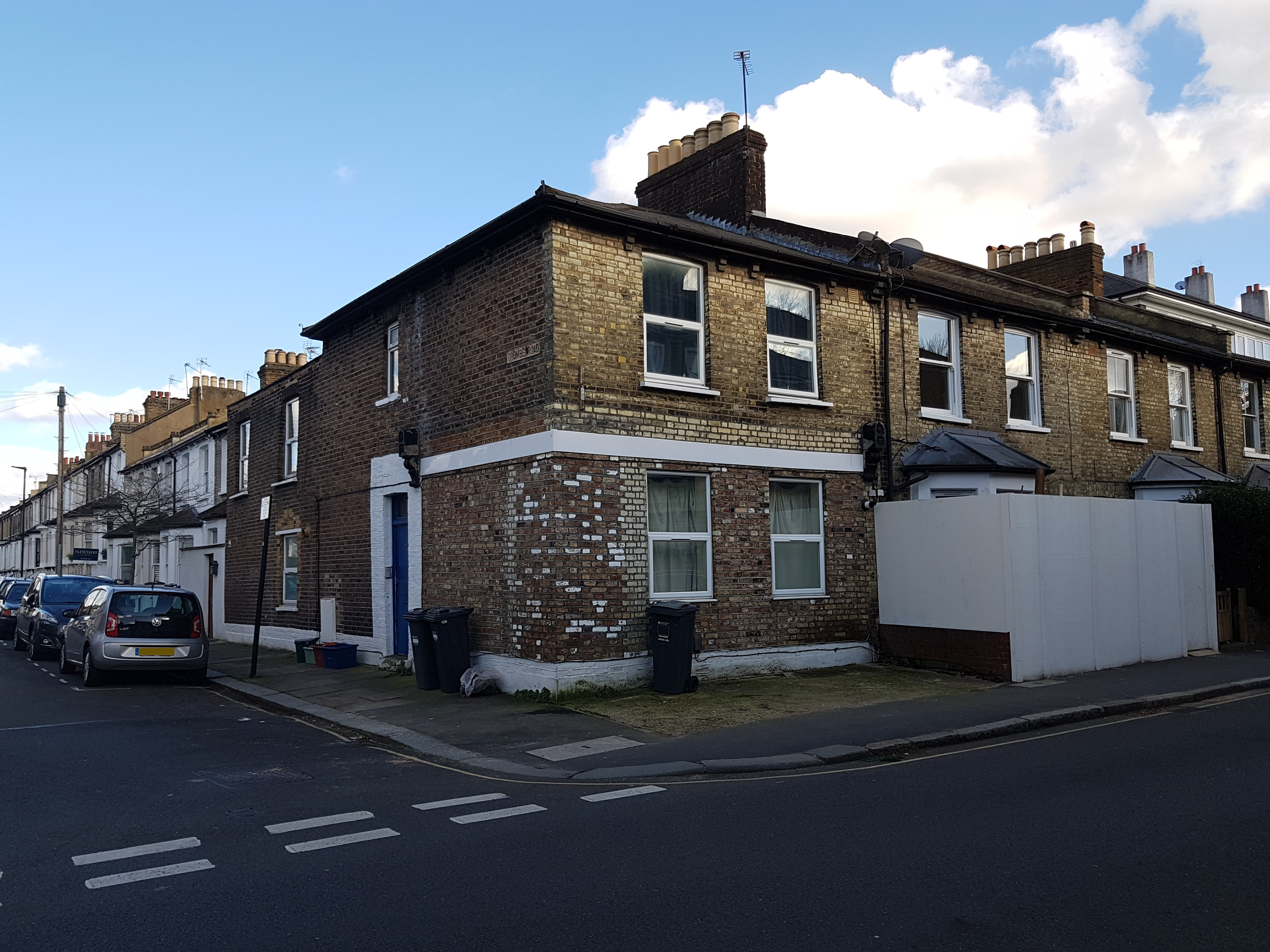 Housing